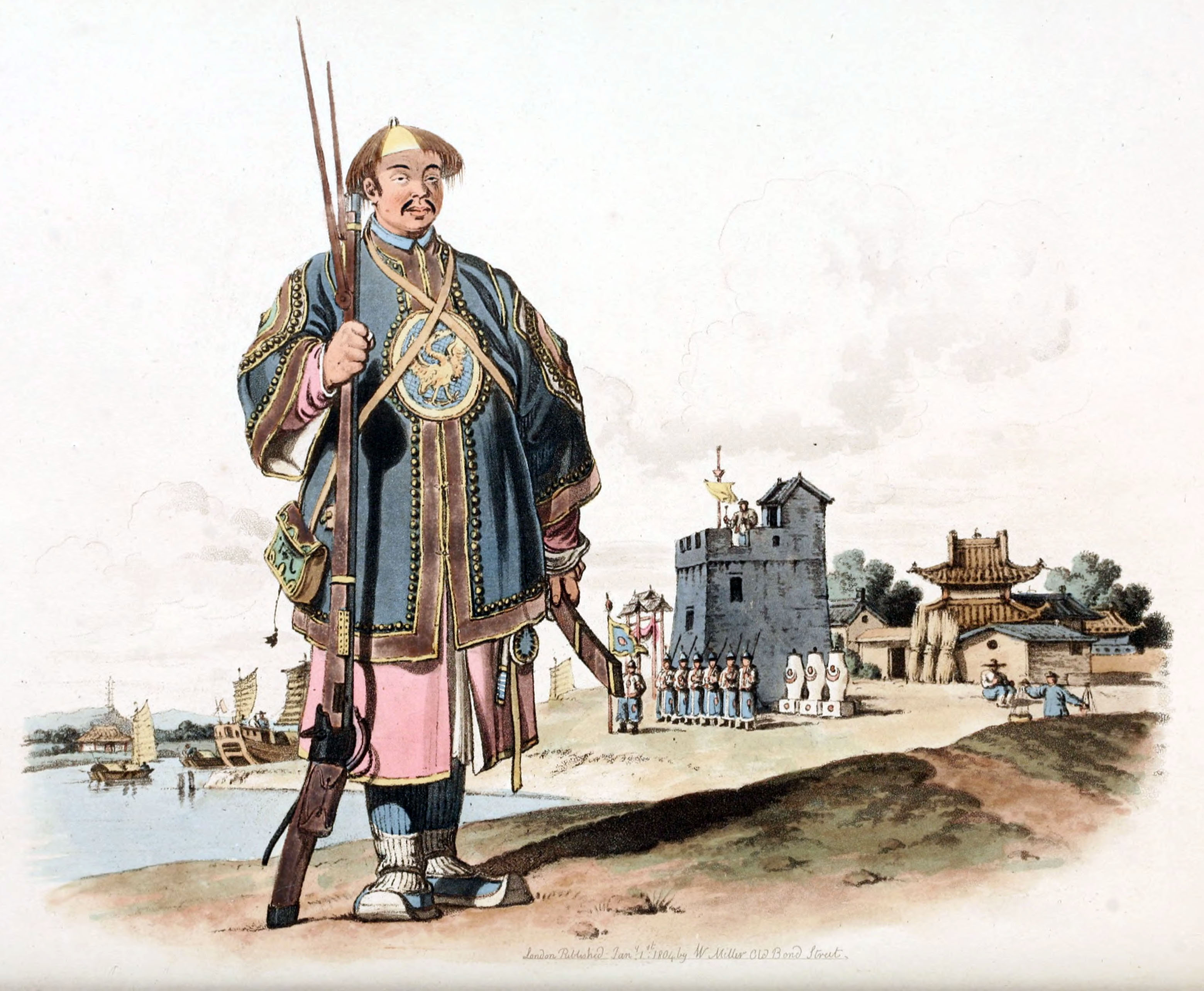 Drawing by William Alexander, draughtsman of the Macartney Embassy to China in 1793. A soldier armed with a matchlock gun. At his right side hangs his cartouch-box and on his left, his sword with the point forwards. In the background, there is a military post. A sentinel beats a gong to call out the guard, who are ready to salute a man of rank. Alexander noted an outdated design of the Chinese firearms compared to the European muskets. Image taken from The Costume of China, illustrated in forty-eight coloured engravings, published in London in 1805.